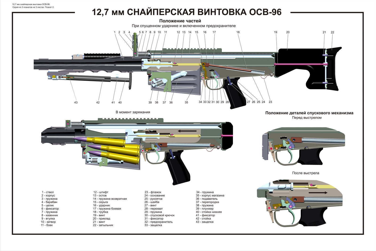 Russian anti-material rifle, osv-96's picture of mechanism